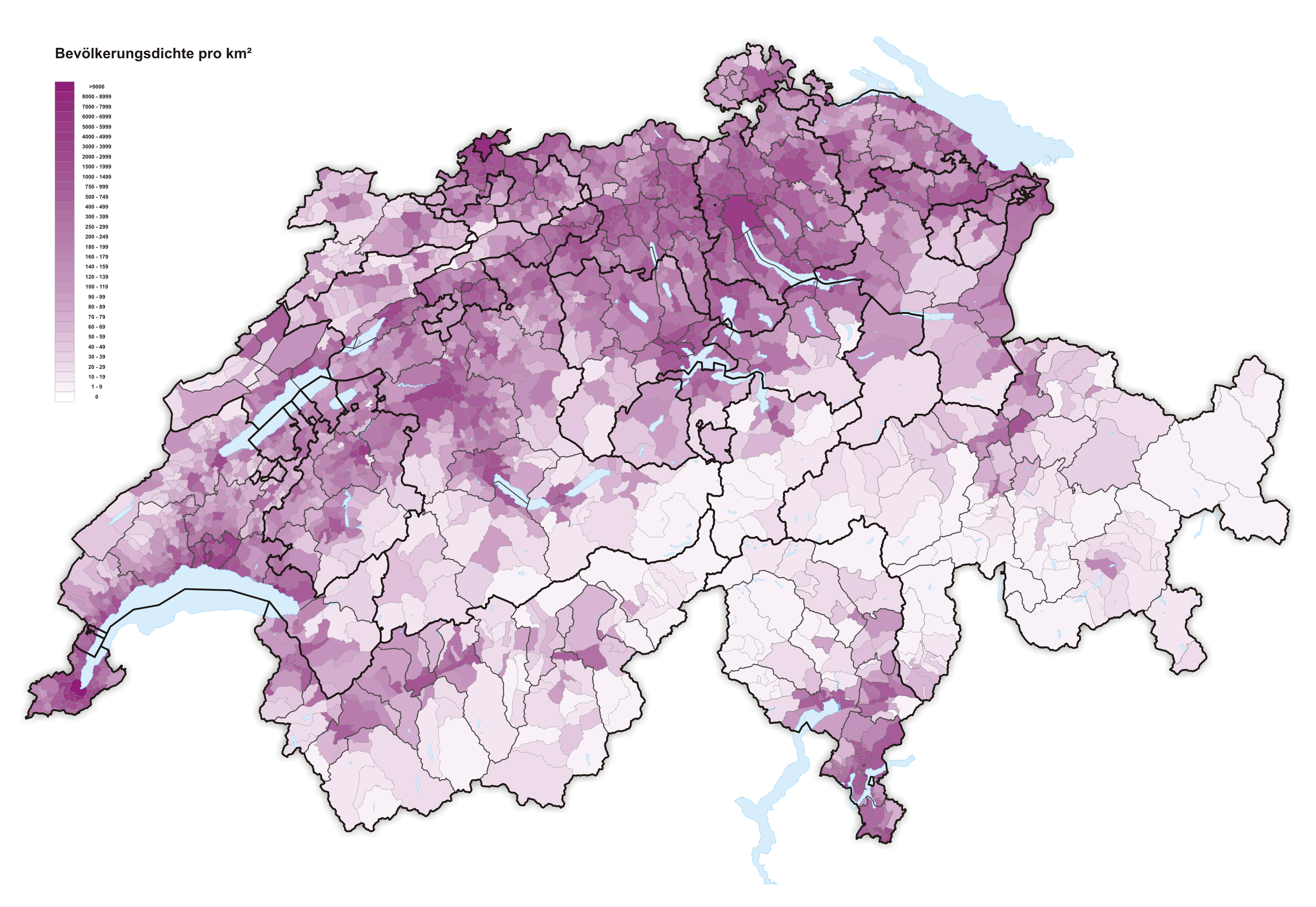 Population density in Switzerland